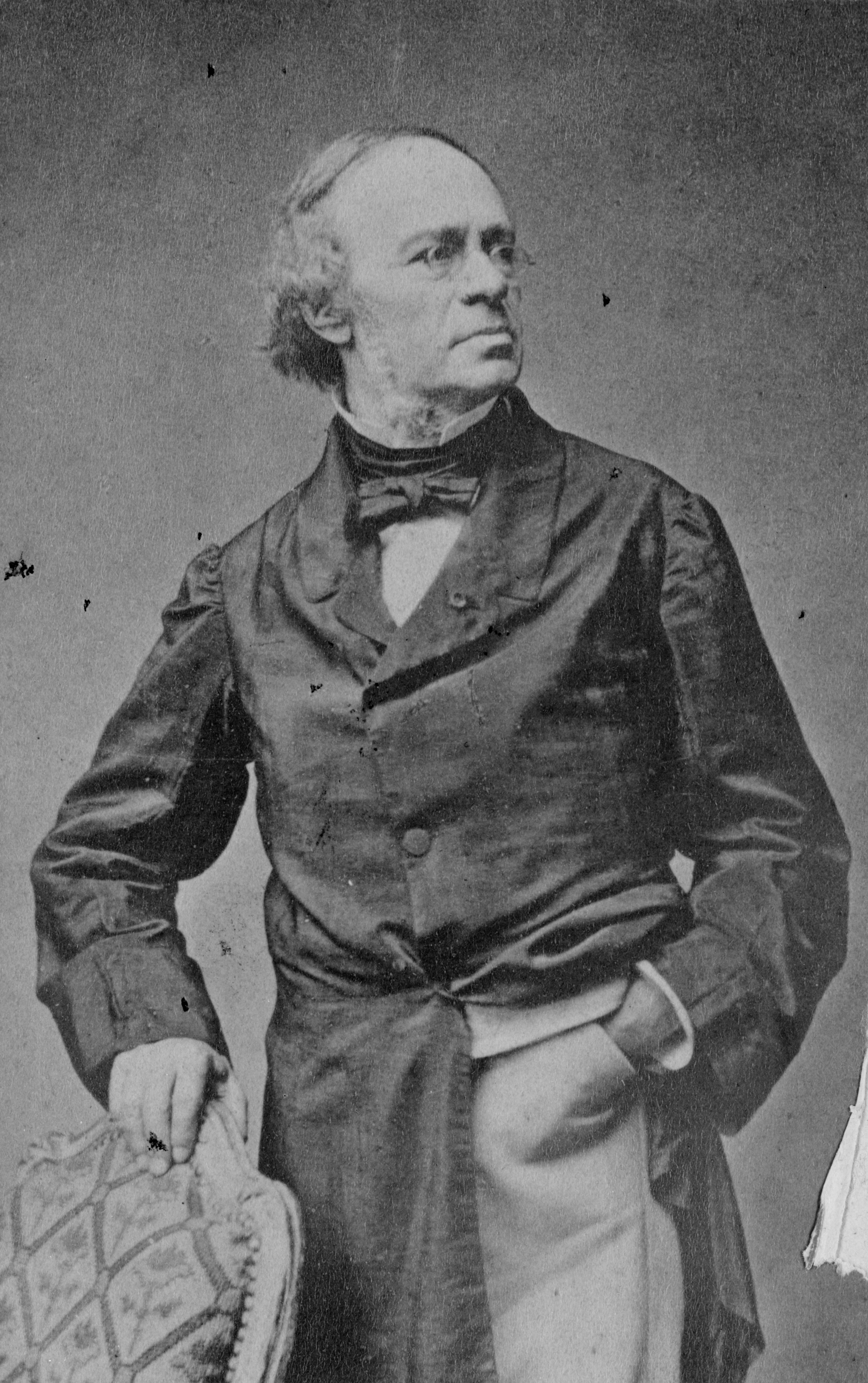 Photograph of French composer Jacques Fromental Halévy (1799–1862)